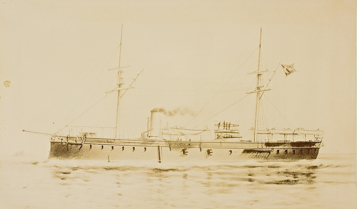 Ottoman ironclad Necm-i Şevket, Abdulhamid II's personal archive